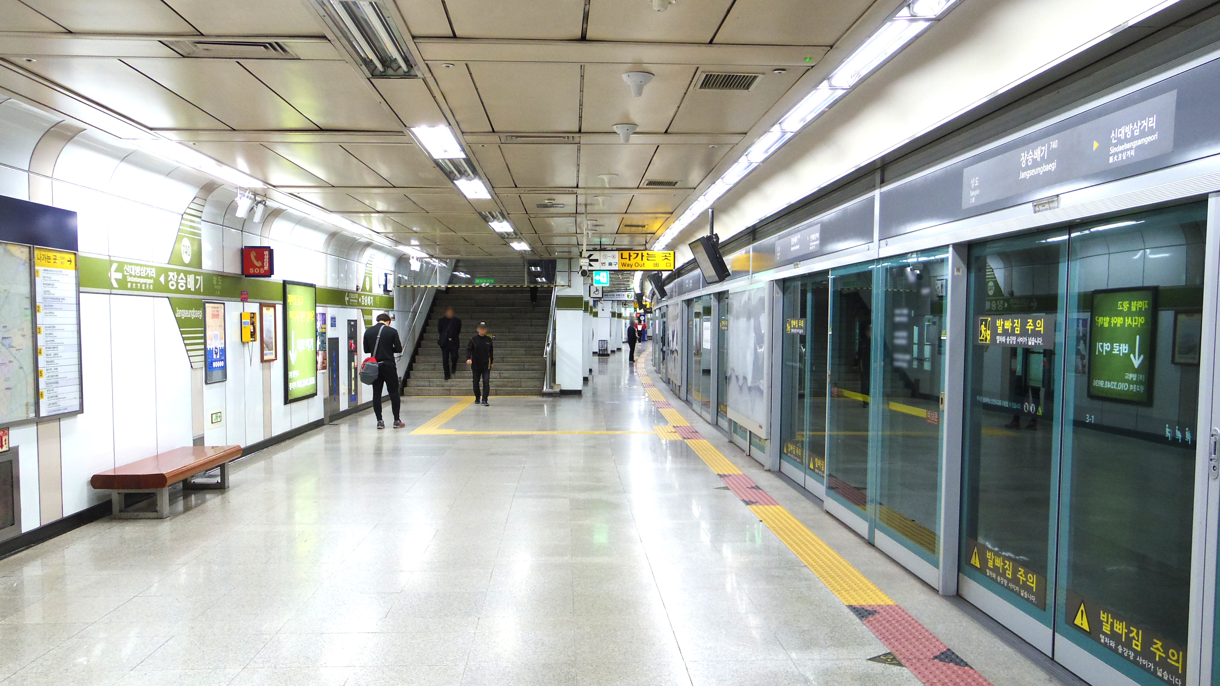 The Onsu-bound platform at Jangseungbaegi Station on the Seoul Subway Line 7 in Dongjak-gu, Seoul, Republic of Korea(South Korea)